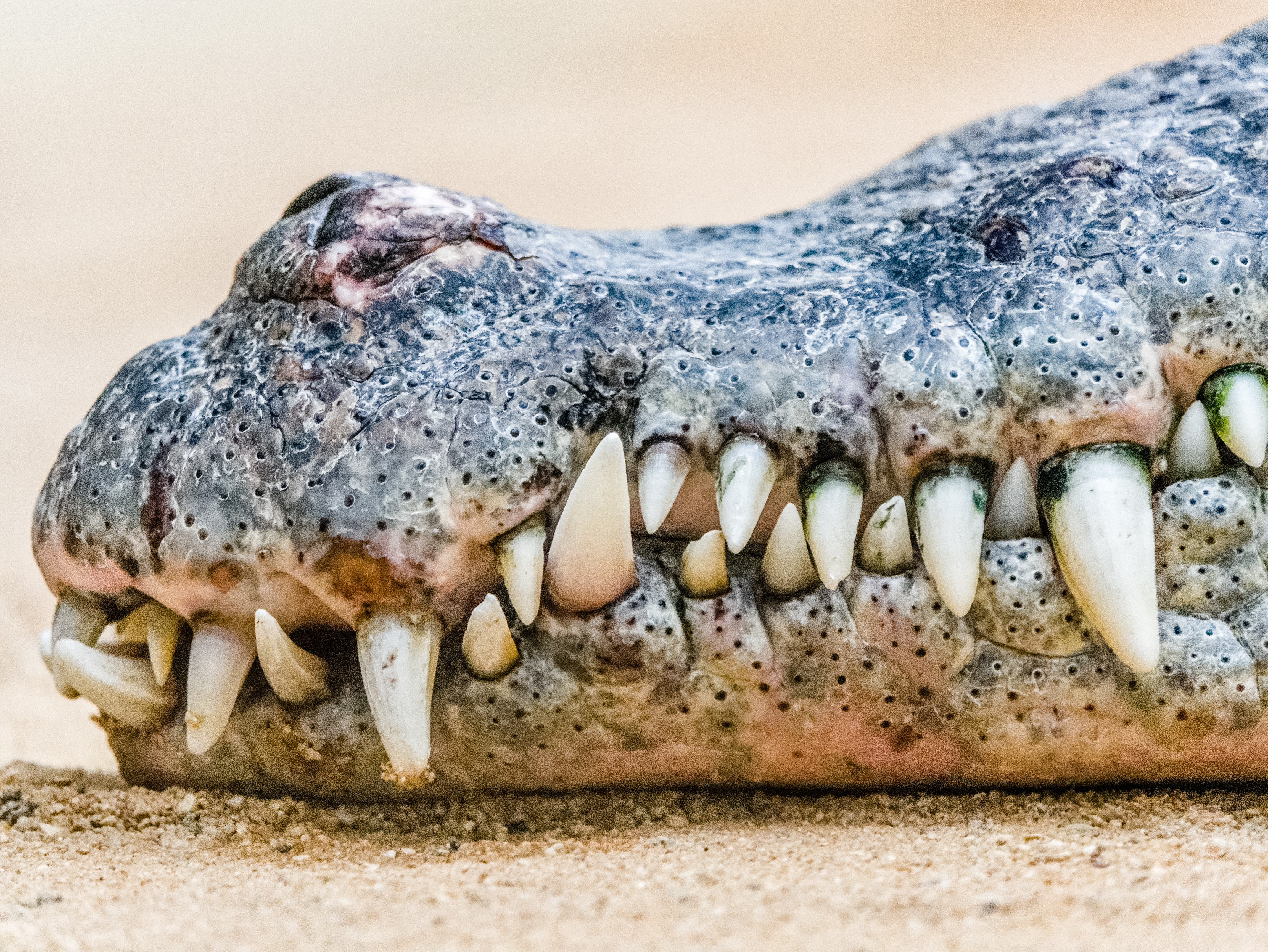 Teeth and mouth of a nile crocodile